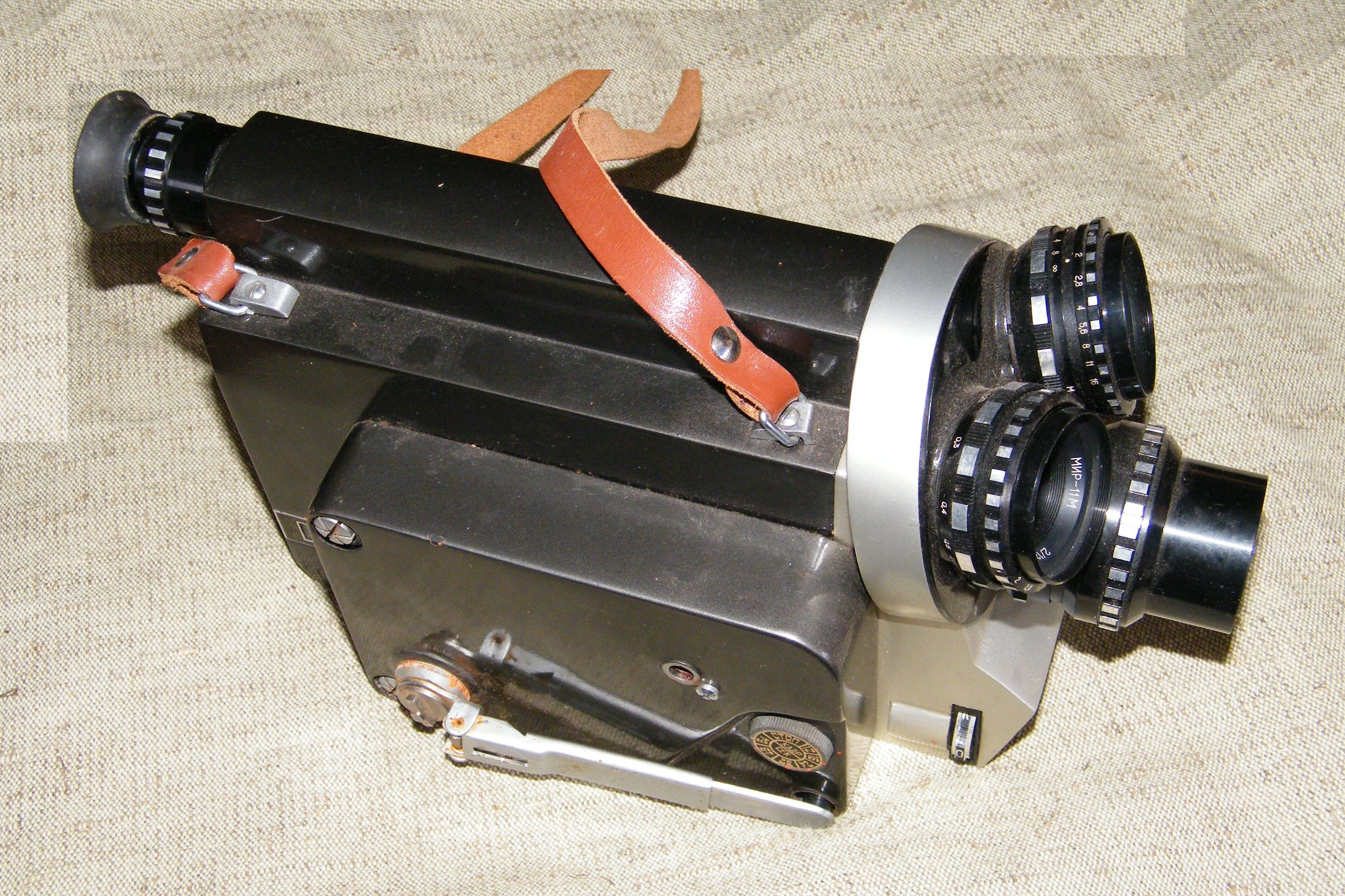 Киев-16У 16-мм кинокамера